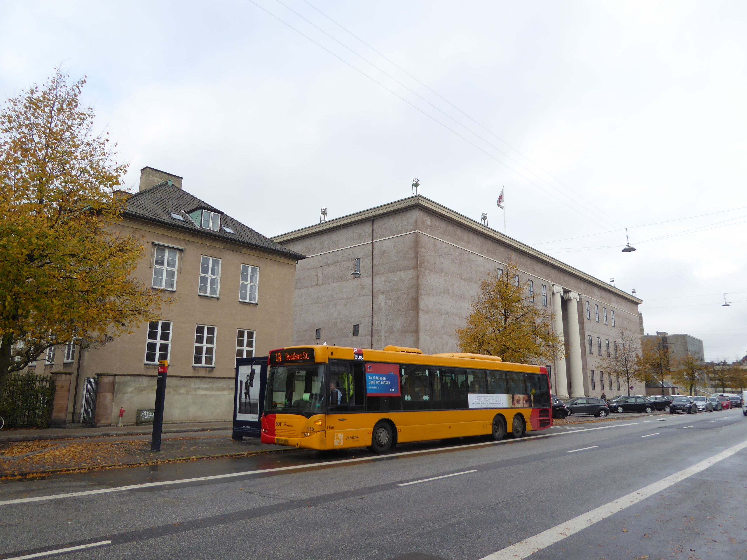 Movia bus line 1A on Blegdamsvej at the Freemasons' Hall in Østerbro in Copenhagen. Line 1A began serving Blegdamsvej a few days before at 13 October 2019.